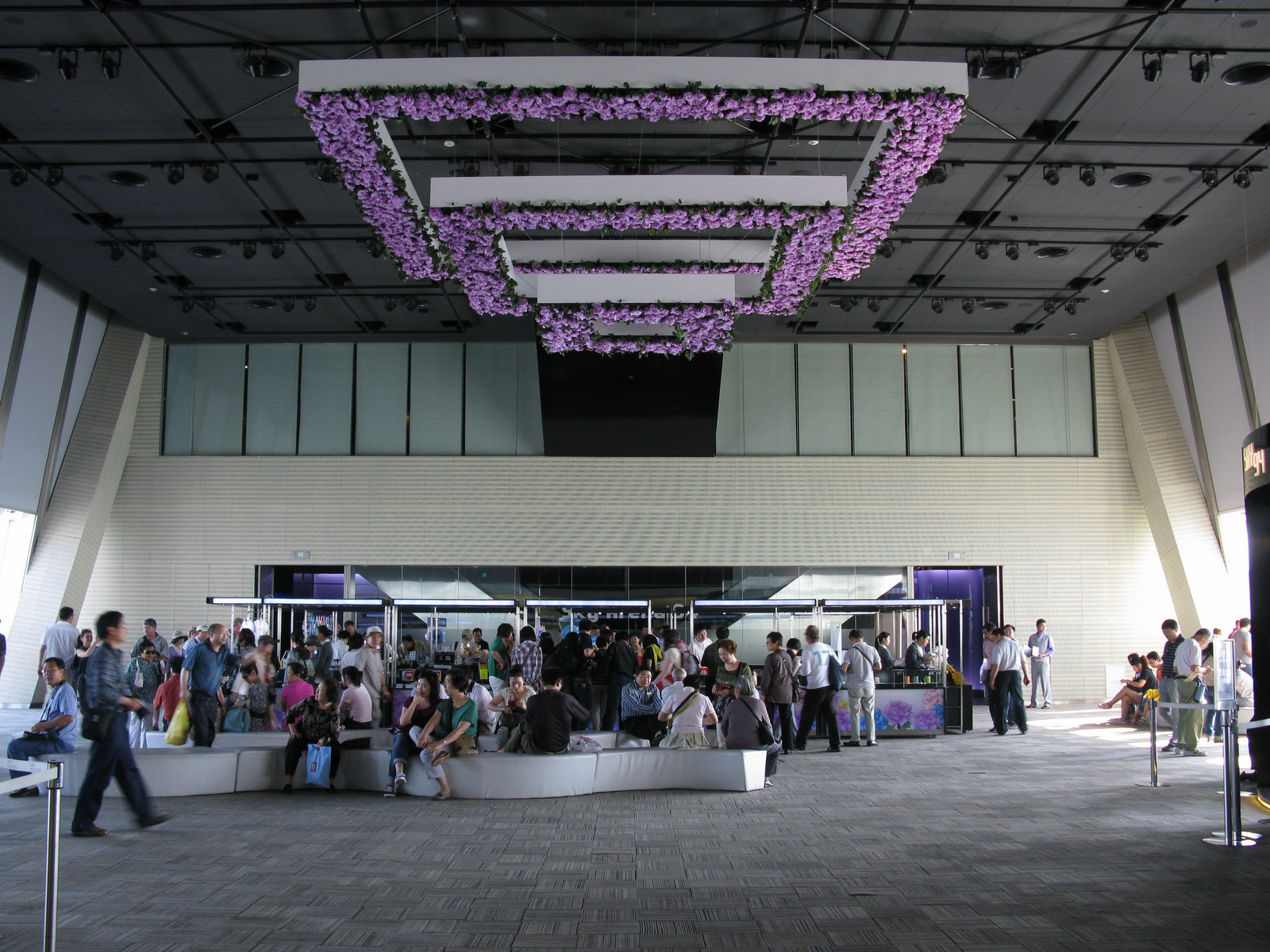 Sky Arena at 94/F of Shanghai World Financial Center